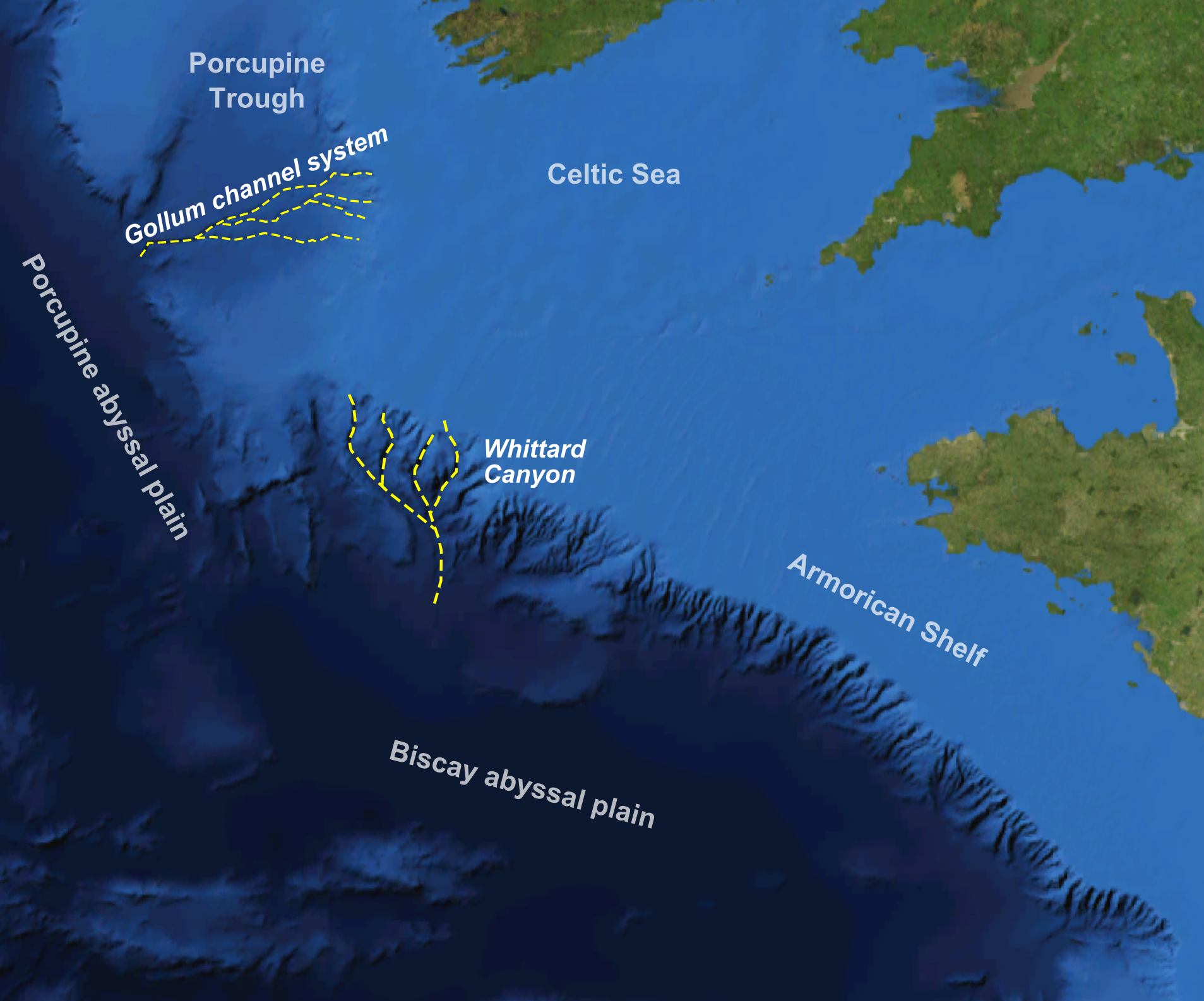 Screen capture from NASA WorldWind software of the Atlantic Margin from southern Ireland to France with the Gollum channel system and Whittard canyon highlighted